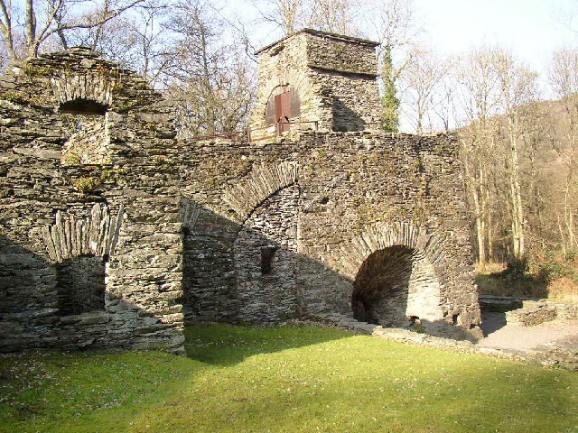 Duddon Iron Furnace. This was built in 1736 and operated until 1867. It has been restored and there is an information panel. There were eight rural blast furnaces in the area, at Duddon Bridge, Nibthwaite (by Coniston Water), Penny Bridge, Newland (near Ulverston), Backbarrow, Low Wood, Leighton (Carnforth) and Cunsey (Windermere). The iron ore (haematite) was mined in the Lindal and Dalton area and came by barges that also took away the iron. The furnaces used charcoal made from coppice wood, and power was obtained using water wheels. The charcoal and iron ore were heated together to 1500 degrees C, using bellows to increase the intensity of the fire, and the carbon combined with the oxygen in the ore leaving pure molten iron and slag. Production was continuous for periods of 20 to 30 weeks, and ten tons of iron was drained off every twelve hours into moulds to make ingots known as pigs. These rural furnaces became obsolete when coke supplanted charcoal as the source of carbon. The buildings were intact until the 1900s. These included storehouses for the iron ore and the charcoal, an office, cottages and a stable.